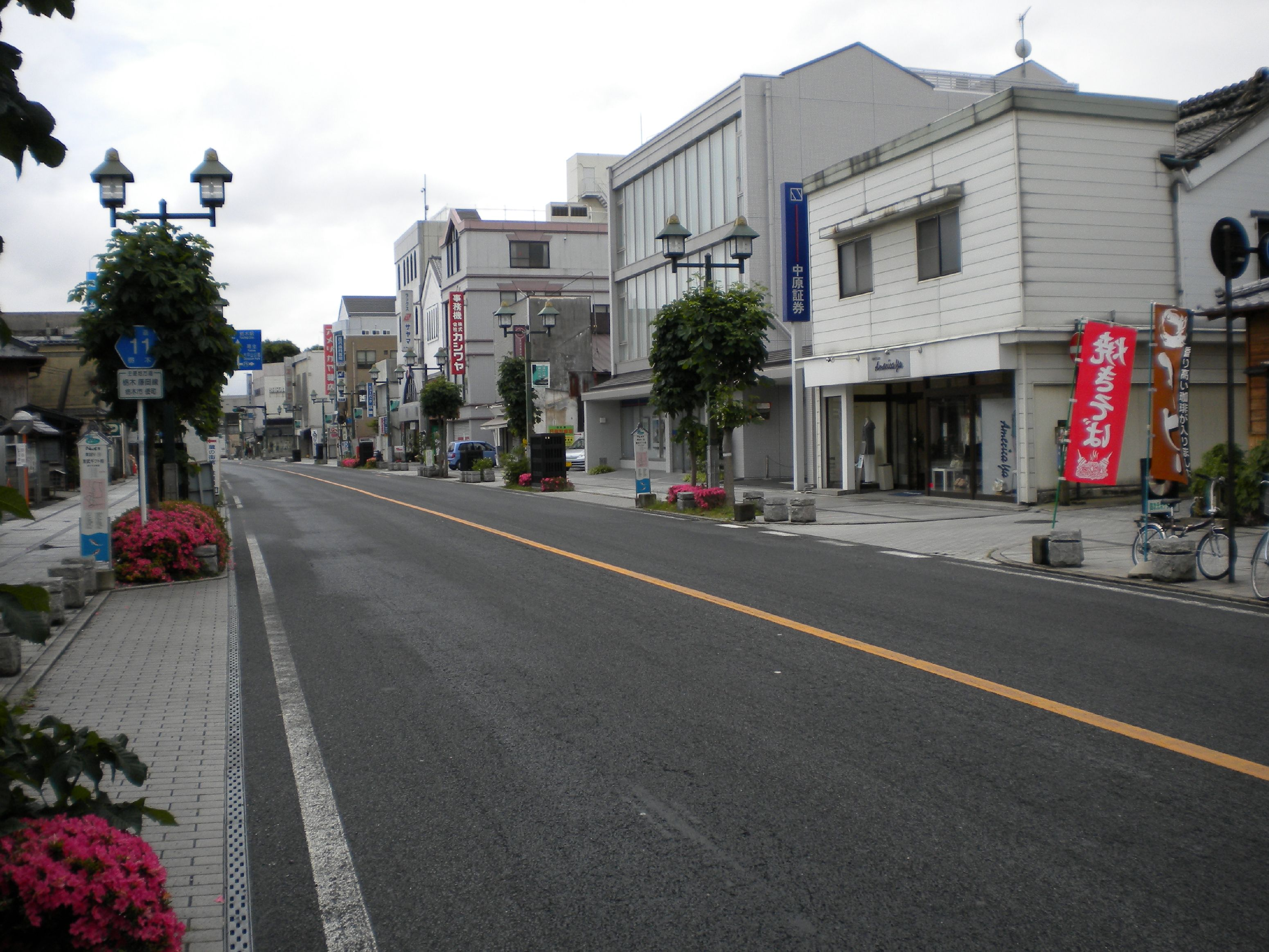 Tochigi Prefectural Road Route 11 in Tochigi City